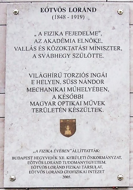 Loránd Eötvös commemorative plaque in Budapest District XII, Dolgos Street No 2. (on the wall of MOM Park)